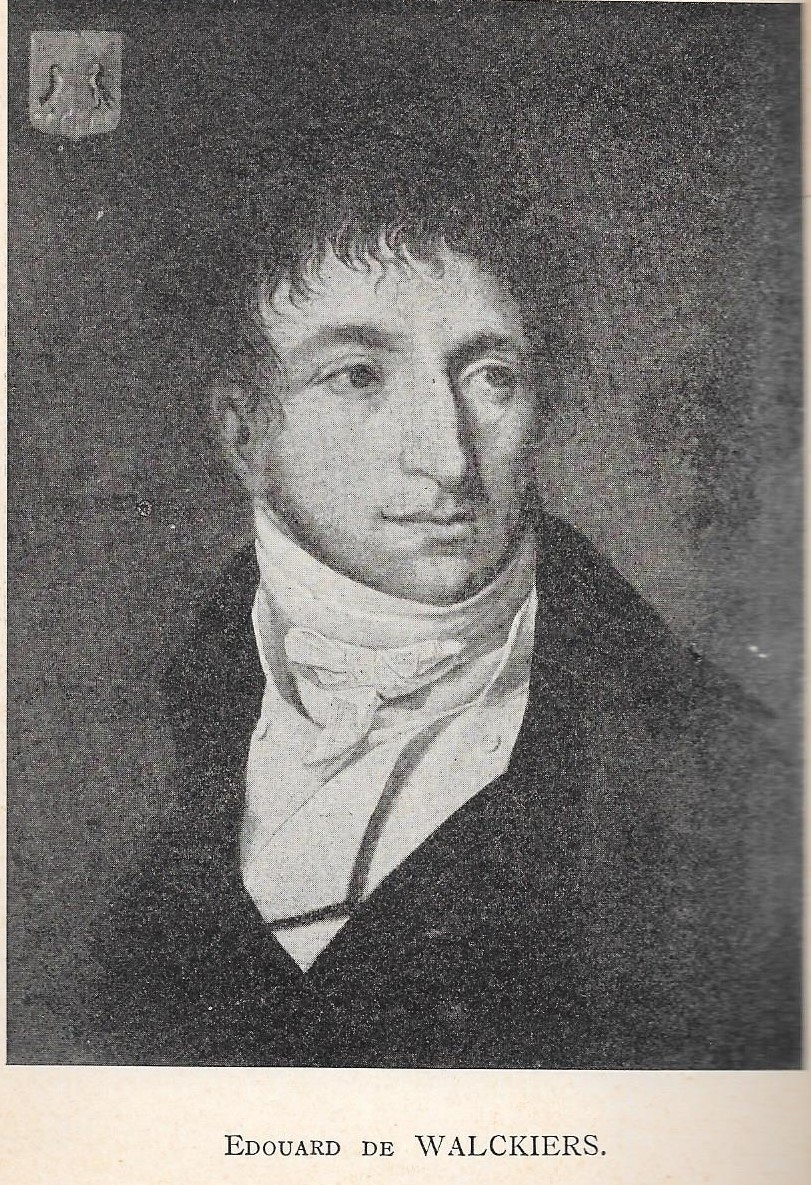 Banker and revolutionary Edouard de Walckiers